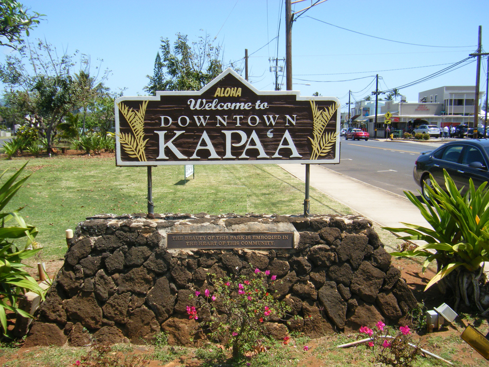 Welcome to Kapa'a, Hawaii